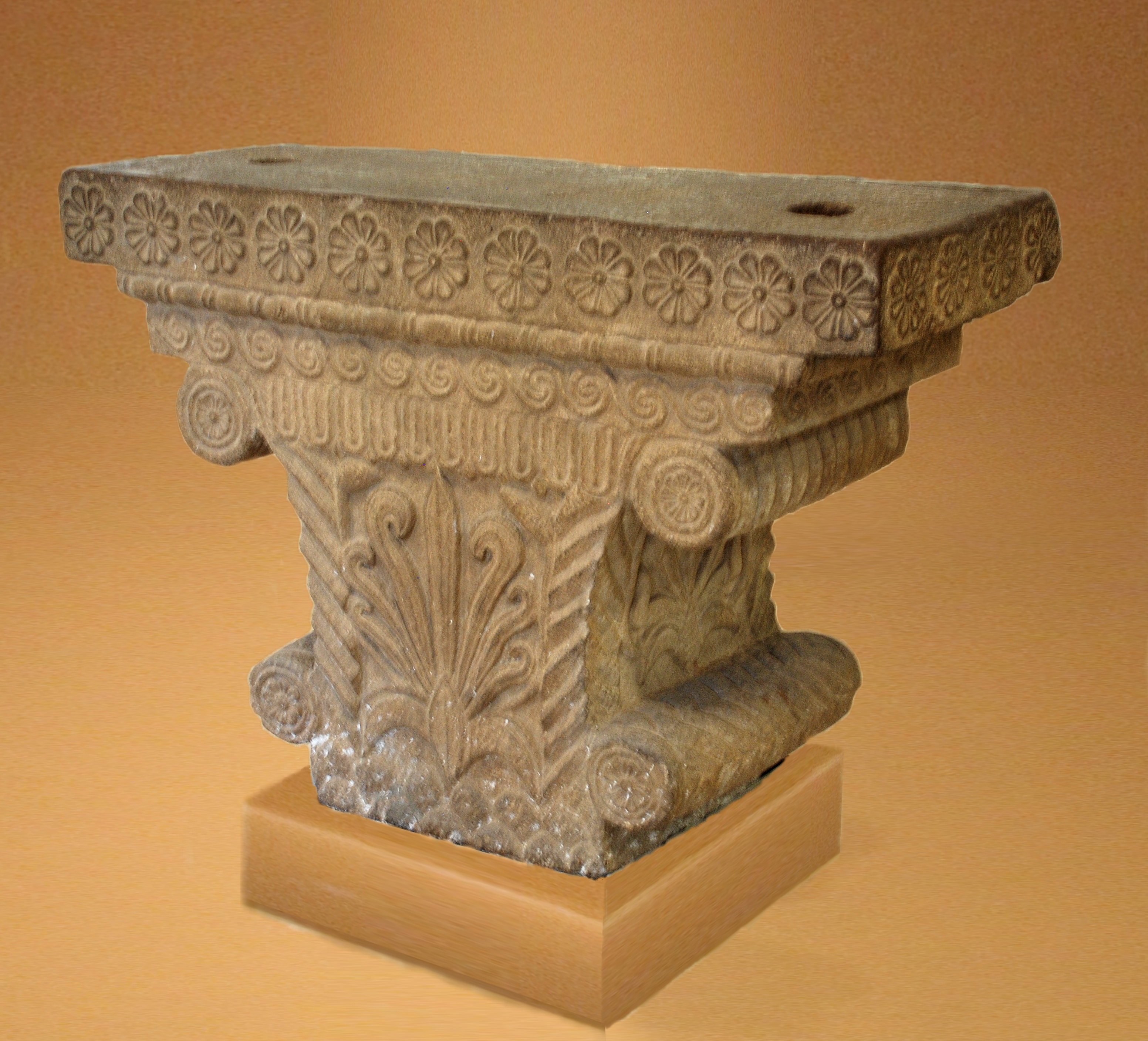 Pataliputra capital, Bihar Museum, Patna, 3rd century BCE